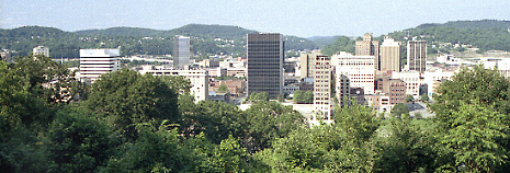 Downtown Charleston, West Virginia as viewed from the grounds of the Sunrise Museum